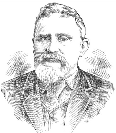 Benjamin H. Clover (Kansas Congressman)